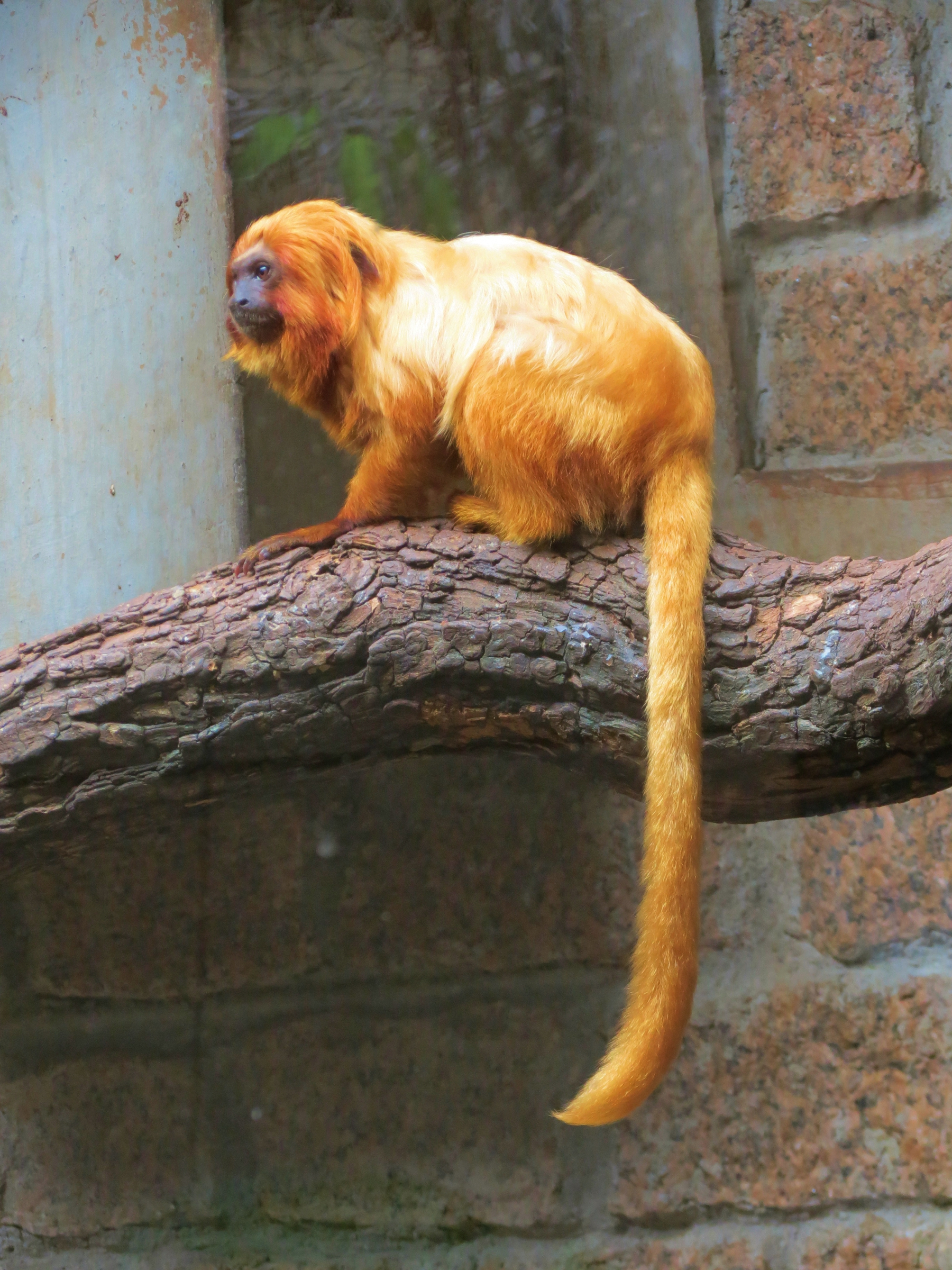 Golden lion tamarin (Leontopithecus rosalia) in Sorocaba Zoo.